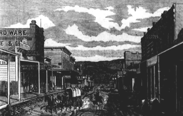 Second Street, The Dalles, Oregon from The West Shore in 1880